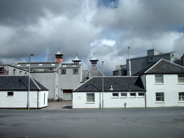 Port Ellen Distillery (closed). Photographed by James Gray, 9th August 2001